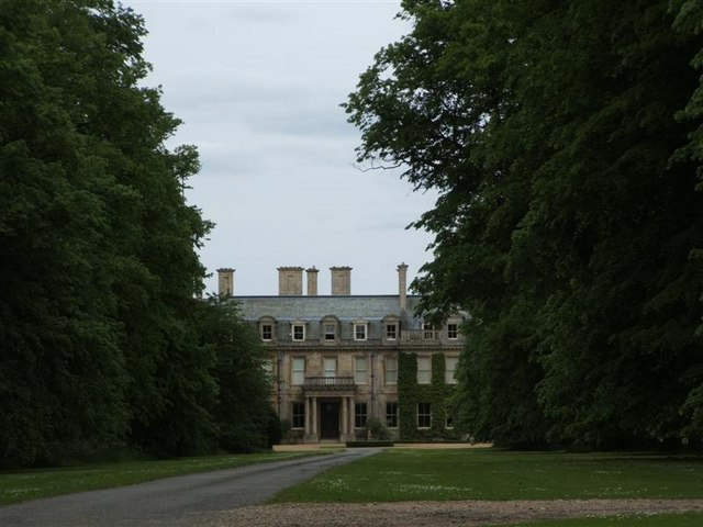 Elton Hall, Elton, near Peterborough, Cambridgeshire